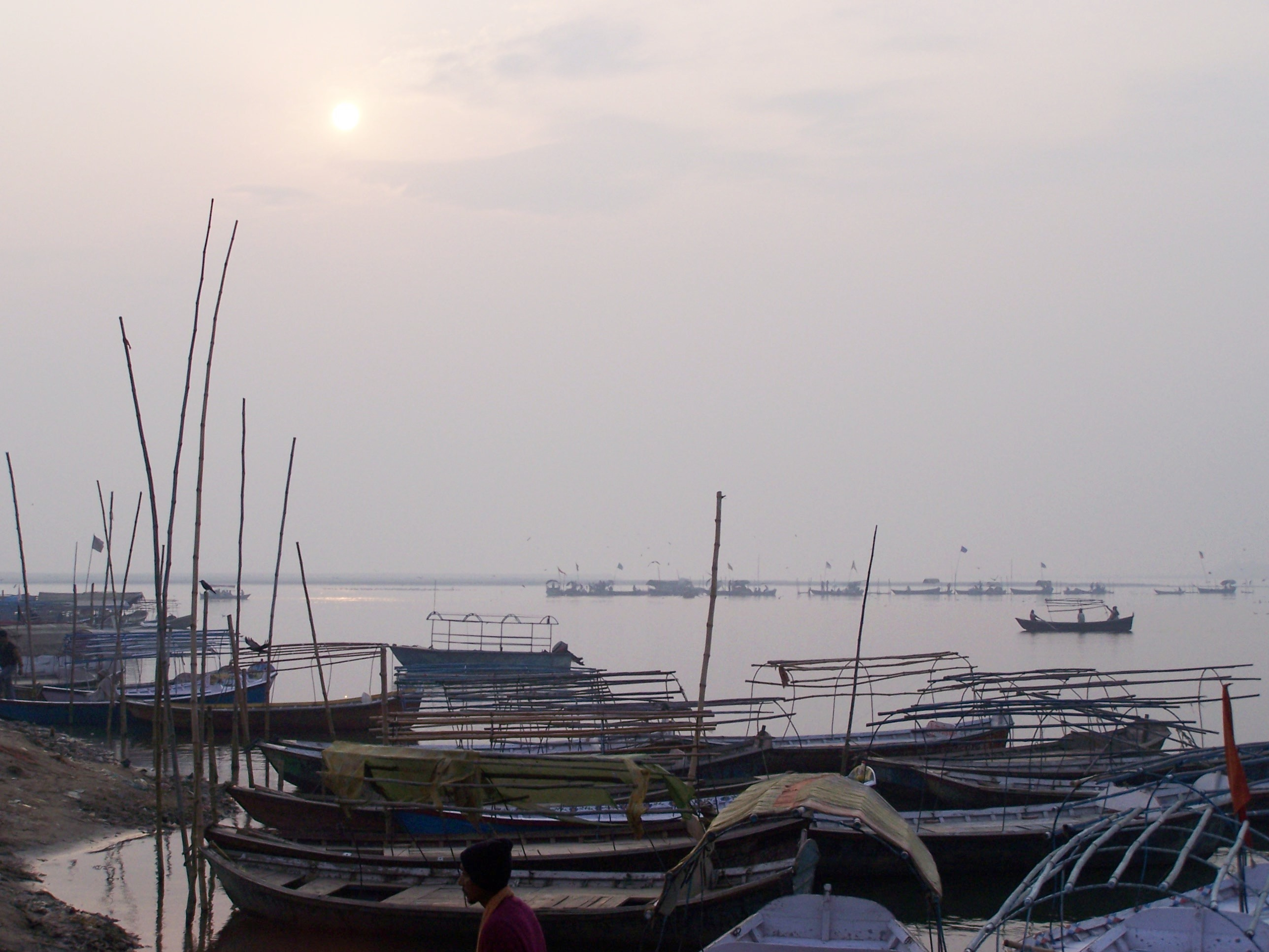 Triveni Sangam. Photograph taken December 2005 at Allahabad, UP, India by Neerajsingh Singraur. The Triveni Sangam is the intersection of Yamuna, Ganges, and mythical Saraswati river.